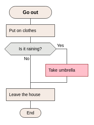 A yes/no decision in DRAKON